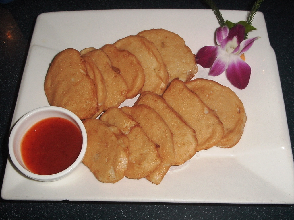 Hakka style deep fried fish cake of Shanghang, Fujian